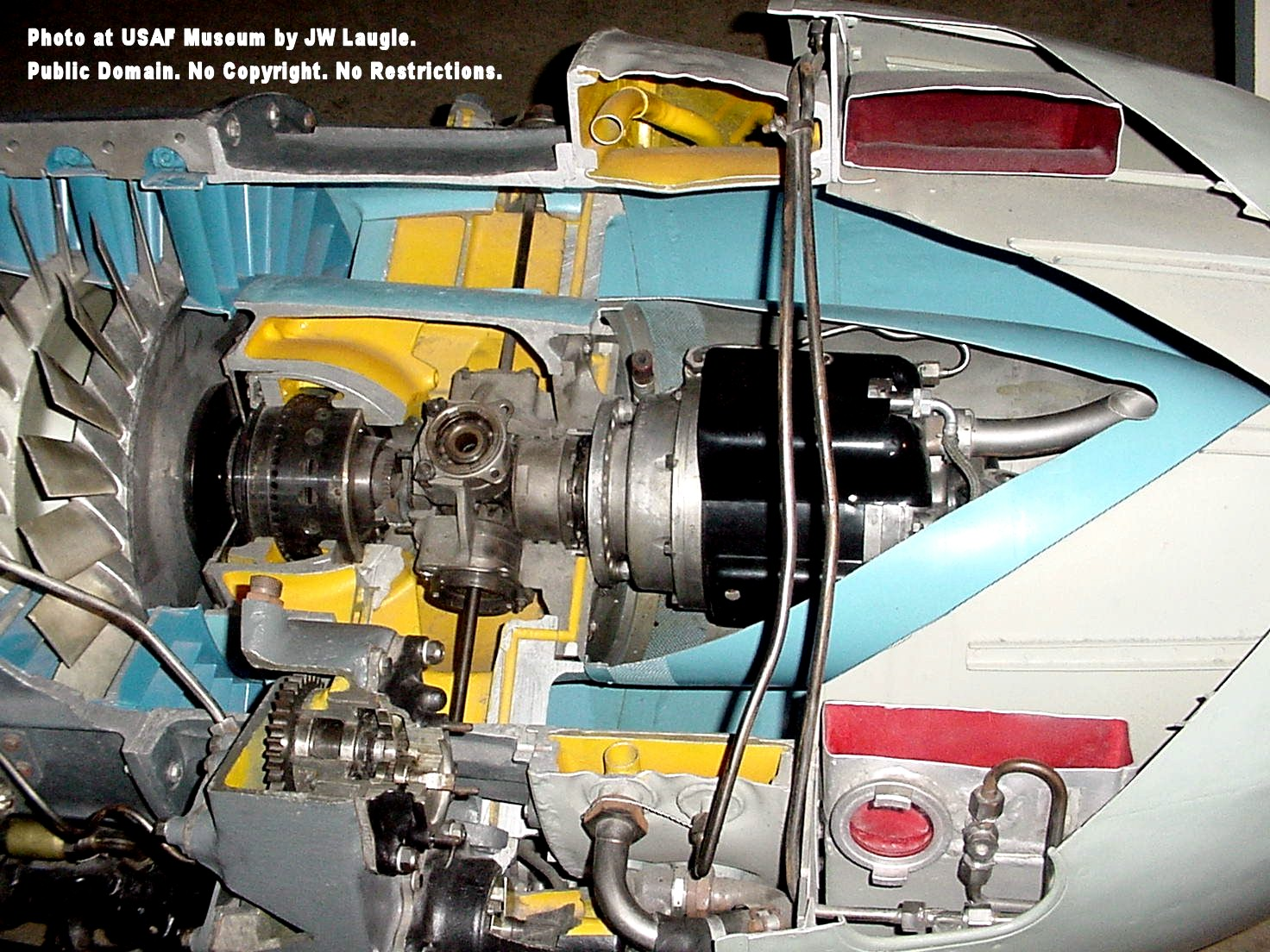 One interesting feature of the 004 was the starter system, which consisted of a Riedel 10 hp (7 kW) 2-stroke motorcycle engine hidden in the intake. A hole in the extreme nose of the centrebody contained a pull-handle which started the piston engine, which in turn spun up the turbine. Two small gasoline tanks were fitted in the annular intake.